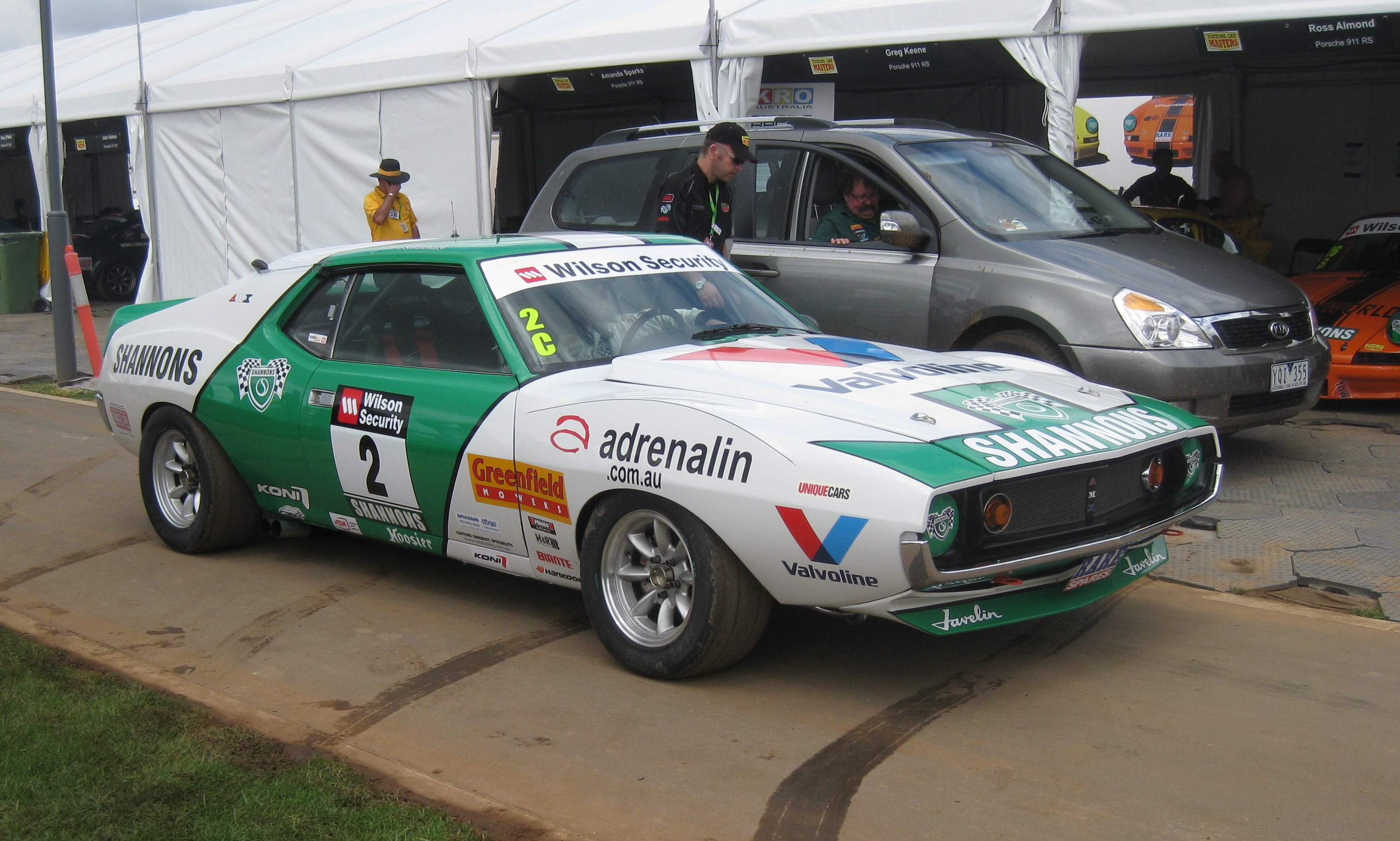 The AMC Javelin AMX of Jim Richards at the Adelaide Parklands Circuit for the opening round of the 2012 Touring Car Masters